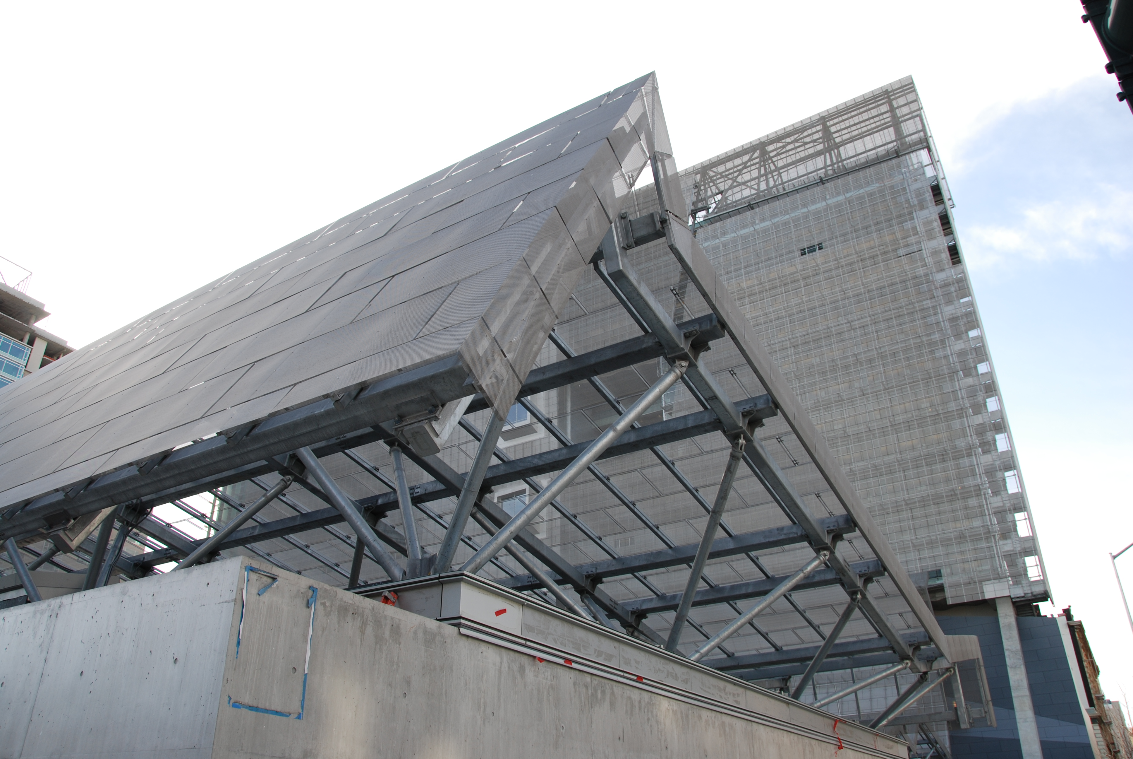 The San Francisco Federal Building